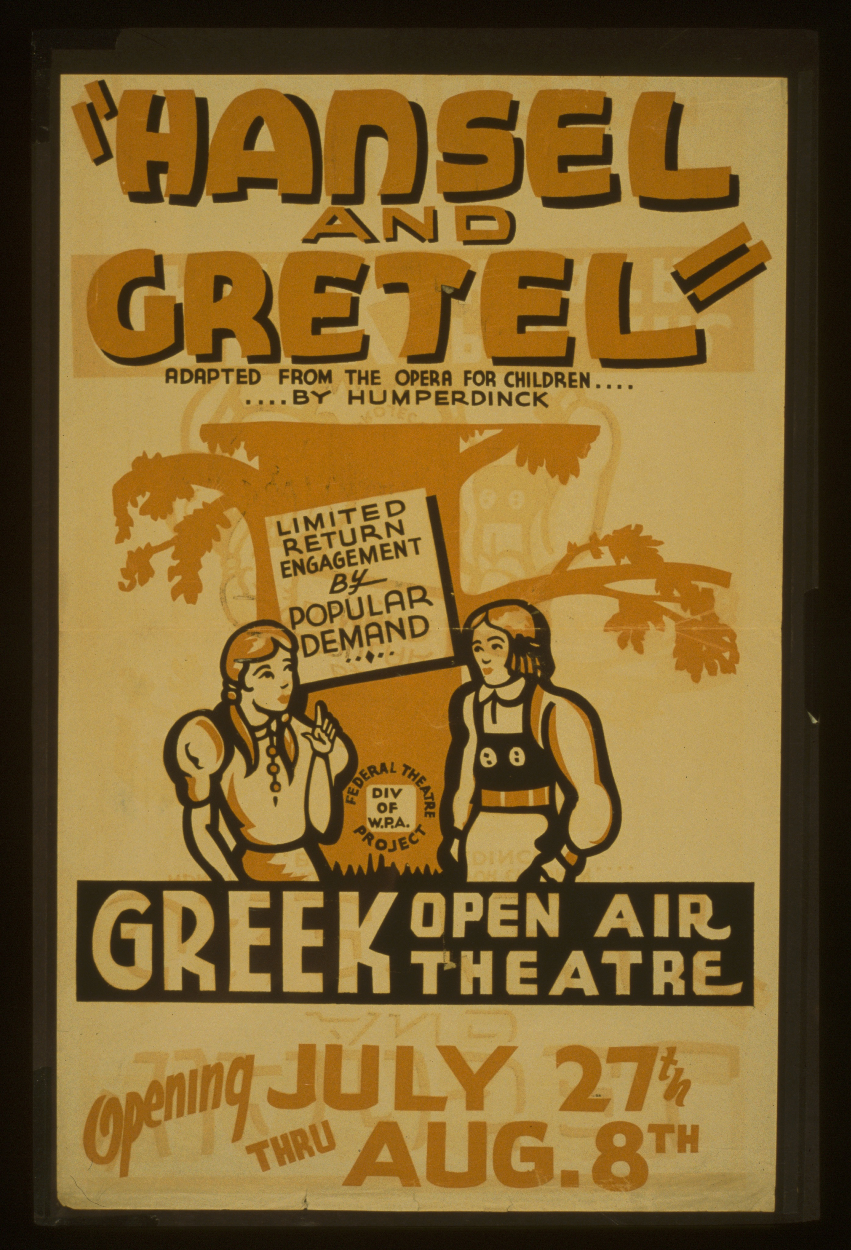 Title: "Hansel and Gretel" Abstract: Poster for Federal Theatre Project presentation of "Hansel and Gretel" at the Greek Open Air Theatre, Los Angeles, Calif., showing Hansel and Gretel standing next to a tree. Physical description: 1 print (poster) : silkscreen, color. Notes: Work Projects Administration Poster Collection (Library of Congress).